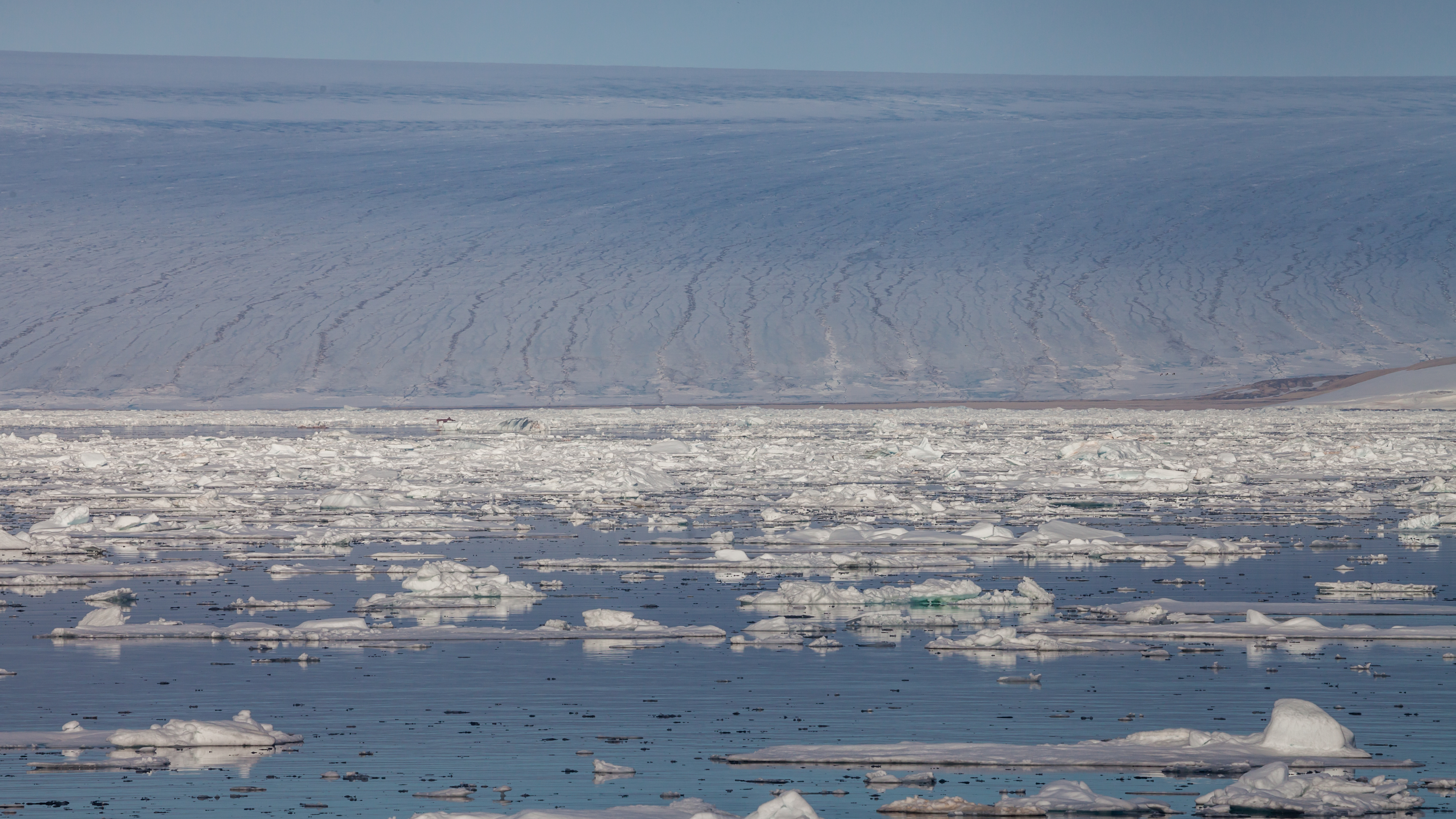 The Austfonna on Nordaustlandet (Svalbard) is one of the biggest ice caps in the world; it comprises an area of 8,300 km2. Here its western shoulder is seen from a distance of approximately 20 kilometers.